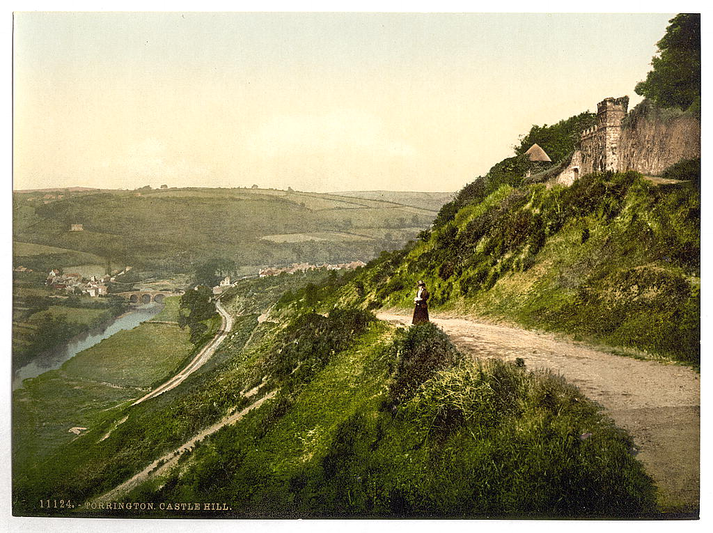 [Castle Hill, Torrington, England] [between ca. 1890 and ca. 1900]. 1 photomechanical print : photochrom, color. Notes: Title from the Detroit Publishing Co., Catalogue J--foreign section, Detroit, Mich. : Detroit Publishing Company, 1905. Print no. "11124". Forms part of: Views of the British Isles, in the Photochrom print collection. Subjects: England--Torrington. Format: Photochrom prints--Color--1890-1900. Repository: Library of Congress, Prints and Photographs Division, Washington, D.C. 20540 USA, Part Of: Views of the British Isles (DLC) 2002696059 More information about the Photochrom Print Collection is available at Higher resolution image is available (Persistent URL): Call Number: LOT 13415, no. 936 [item]